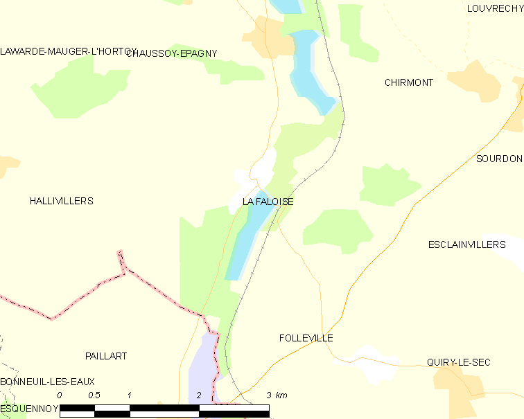 Map of French municipality La Faloise